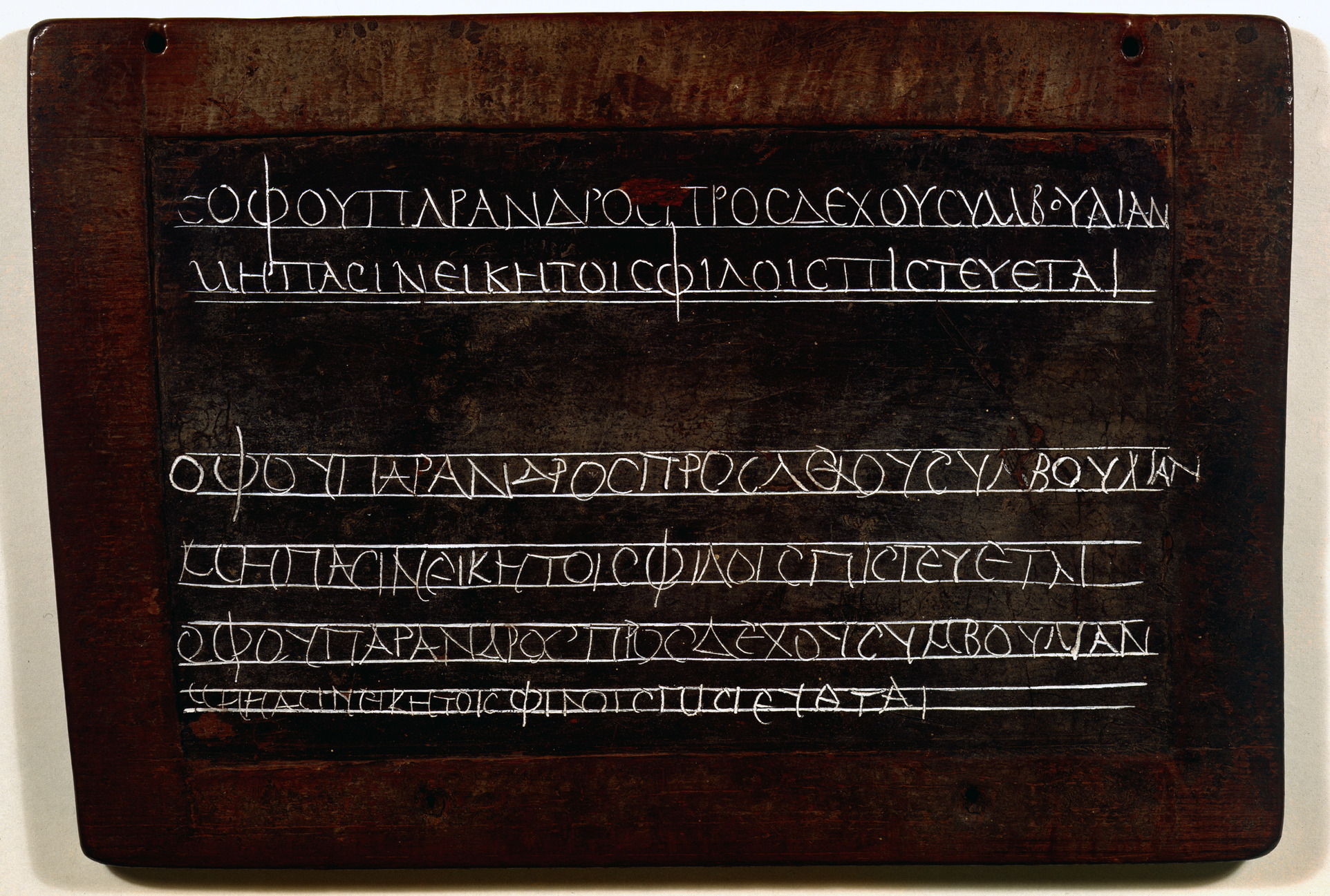 Wax writing tablet (Whole tablet) Wax diptycha or tablet, forming a schoolboy's Greek exercise book. The tablet contains two lines, written neatly above as a model and then copied twice betwen the ruled lines; the first line, and possibly the second, are from the poet Menander. Holes bored for binding tablets together can be seen in the frame.